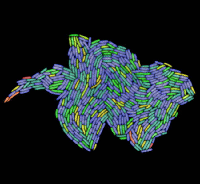 A false-colored image from fluorescence microscopy of a growing colony of E coli cells. Taken from "Aging and Death in E. coli" Citation: (2005) Aging and Death in E. coli. PLoS Biol 3(2): e58 the discussion of a research paper by Stewart EJ, Madden R, Paul G, Taddei F (2005). "Aging and death in an organism that reproduces by morphologically symmetric division". PLoS Biol. 3 (2): e45. PMID 15685293.